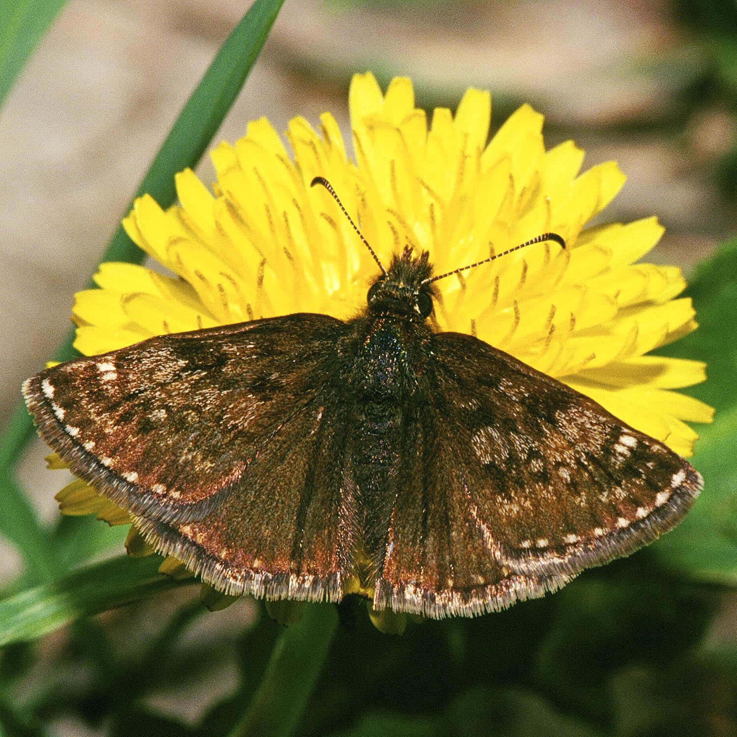 Dingy Skipper, Erynnis tages (LINNAEUS, 1758) (Hesperiidae), Many thanks to Michel Kettner from for determination!